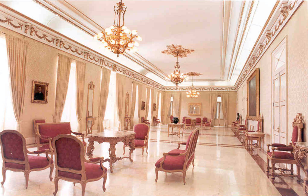 Interior of Palacio Guanabara, seat to the Ri de Janeiro State government